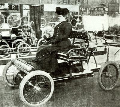 1898 introduction of the Pennington Raft Victoria, Crystal Palace, London, 1898